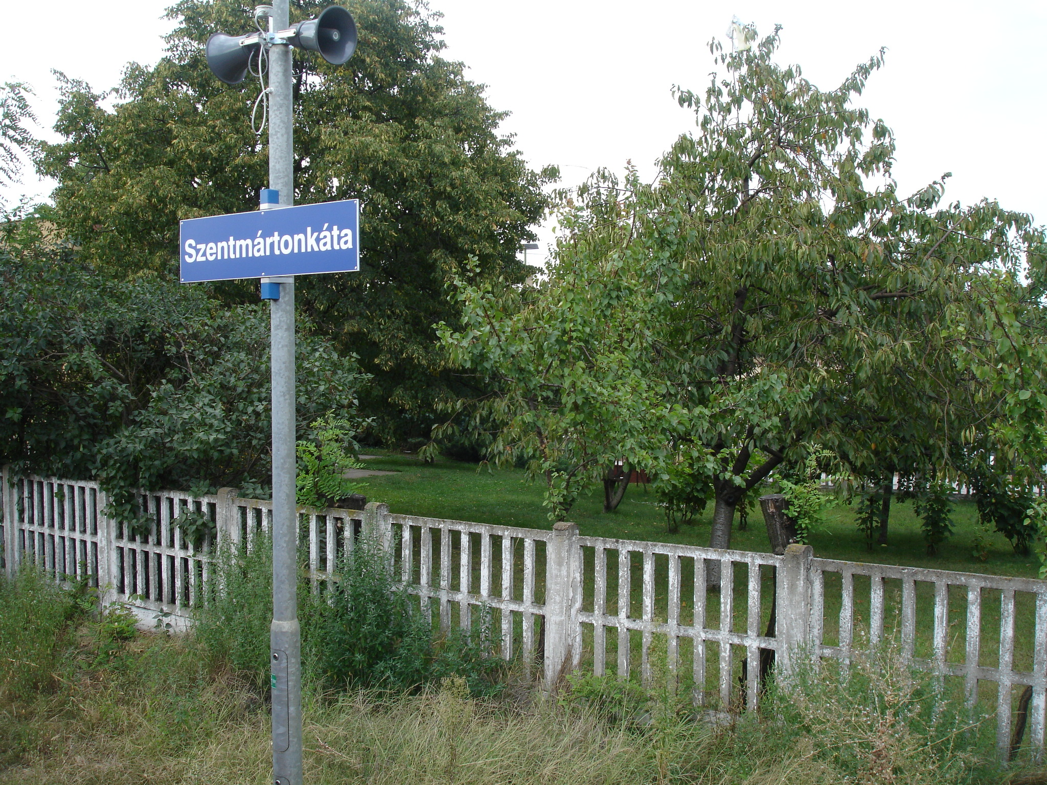 Train stop in Szentmártonkáta, Hungarian railway.